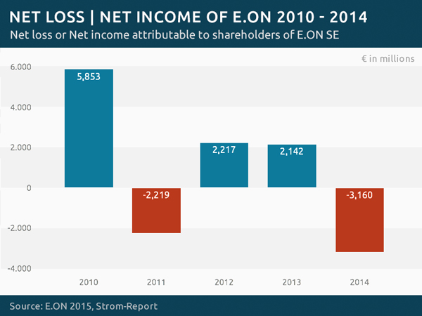 Net loss/Net income attributable to shareholders of E.ON SE 2010 - 2014